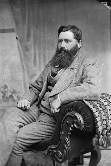 1 negative : glass, wet collodion, b&w ; 11 x 16.5 cm.